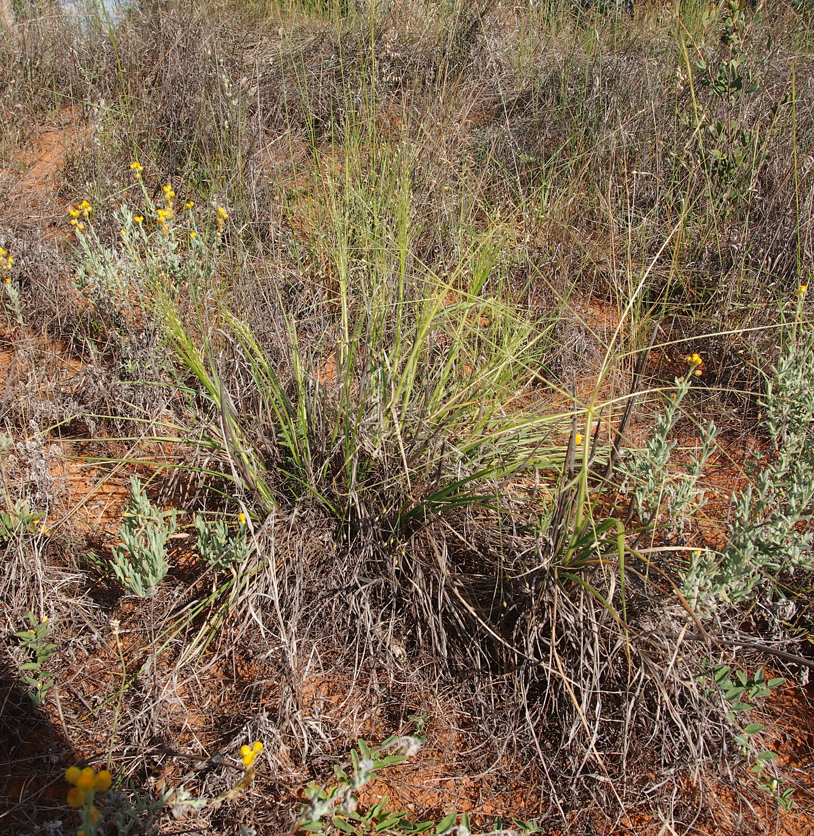 Panicum decompositum habit